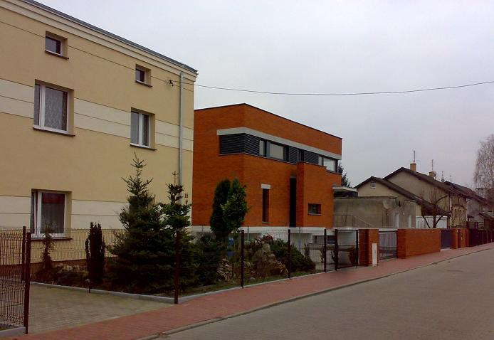 Poznan - Trojpole District, neomodernism house.